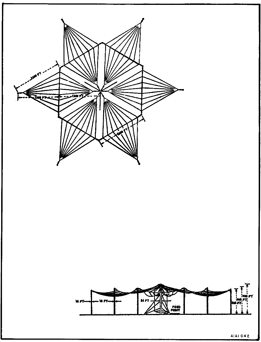 Diagram of "Trideco" type VLF antenna. This is a very large wire antenna, often over a mile in diameter, used by powerful transmitters in the very low frequency band. A type of umbrella antenna, it consists of 13 steel radio towers arranged in two concentric circles with a network of cables linking the tops. The cables are arranged in six "panels" extending from the central tower in a hexagonal "snowflake" pattern. The central tower usually serves as the radiating element, acting as a monopole radiator, while the horizontal suspended cables act as a large capacitive top-load, forming a capacitor with the ground, which increases the current in the vertical element, increasing the radiated power. The transmitter power is applied between the bottom of the central tower and a ground connection. VLF antennas require an extremely low resistance ground, so the ground under the antenna is usually covered by a counterpoise, a radial screen of wires suspended a few feet off the ground. A major use of trideco antennas is in powerful Naval transmitters which communicate with submerged submarines.